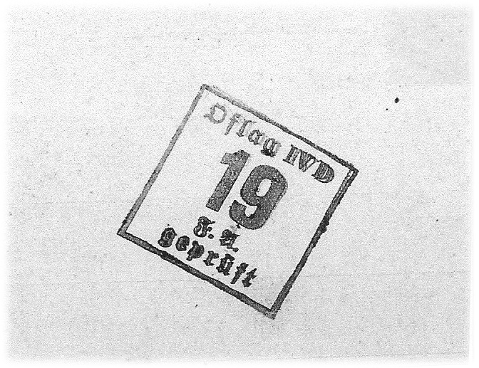 Stamp of the Oflag IV D used on documents